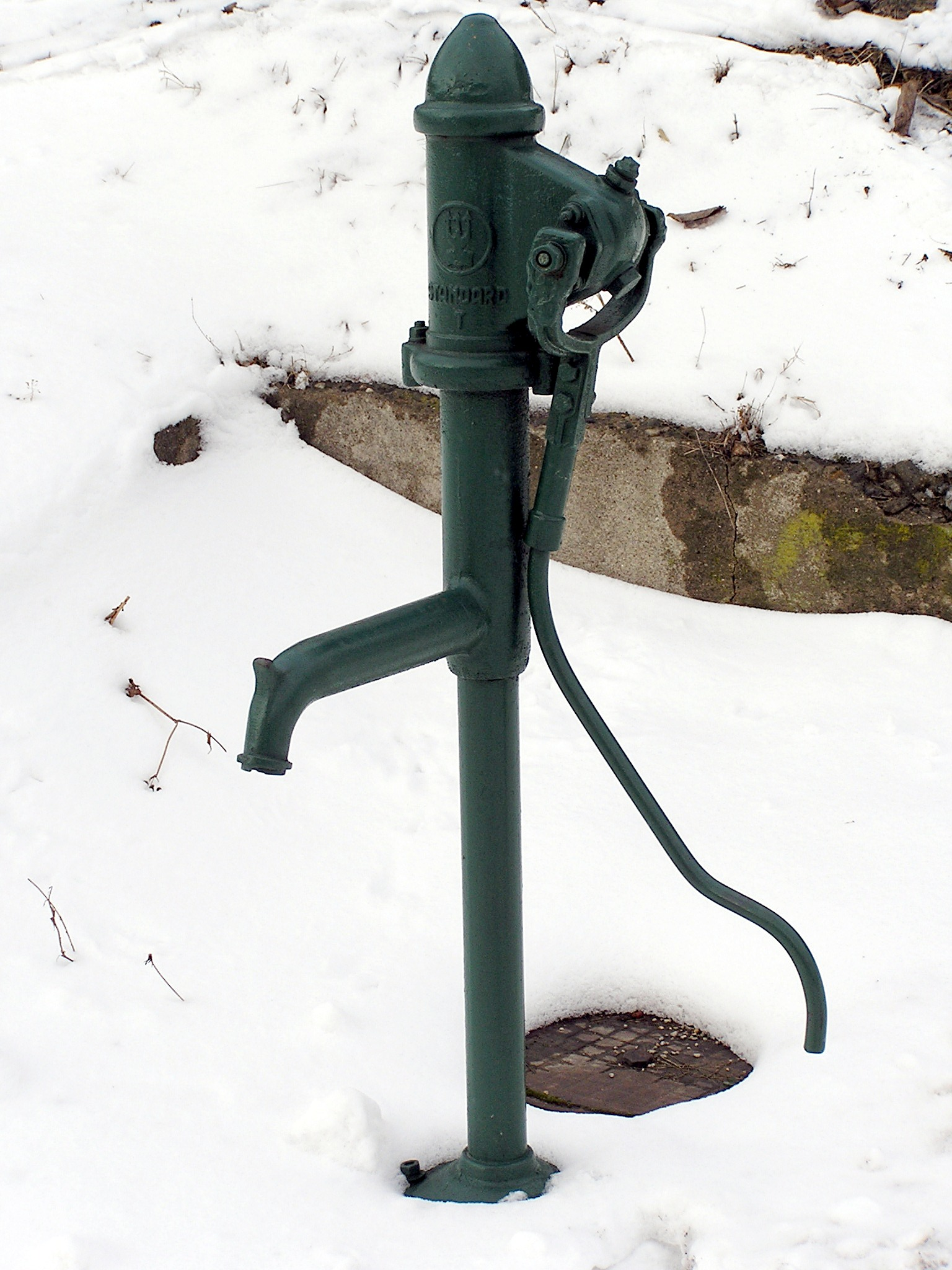 Author: Marian Gladis Water pump, Ťahanovce